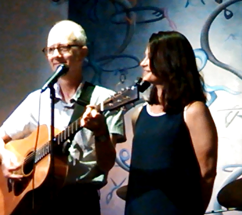 Gil Ray and Suzi Ziegler of Game Theory, performing the song "Regenisraen" on July 20, 2013, at a memorial tribute for Scott Miller in Sacramento, California.